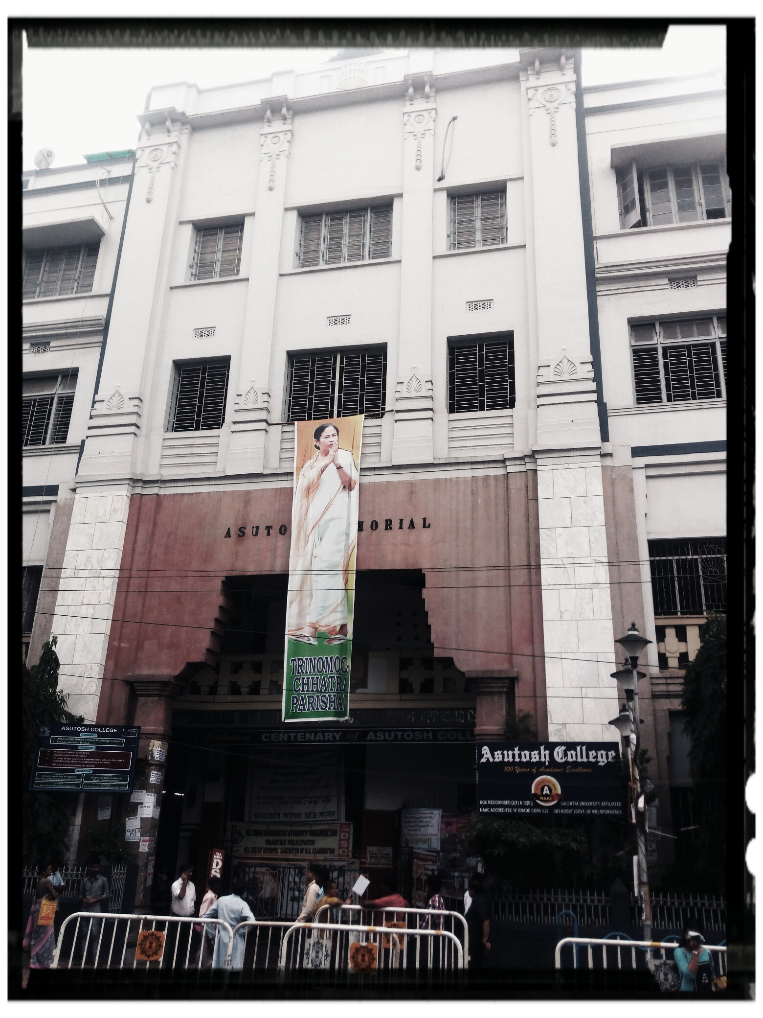 The image of main gate of the main building of Asutosh College. It is the old campus. Address : 92, Shyama Prasad Mukherjee Rd, Anami Sangha, Patuapara, Kalighat, Kolkata, West Bengal 700026.